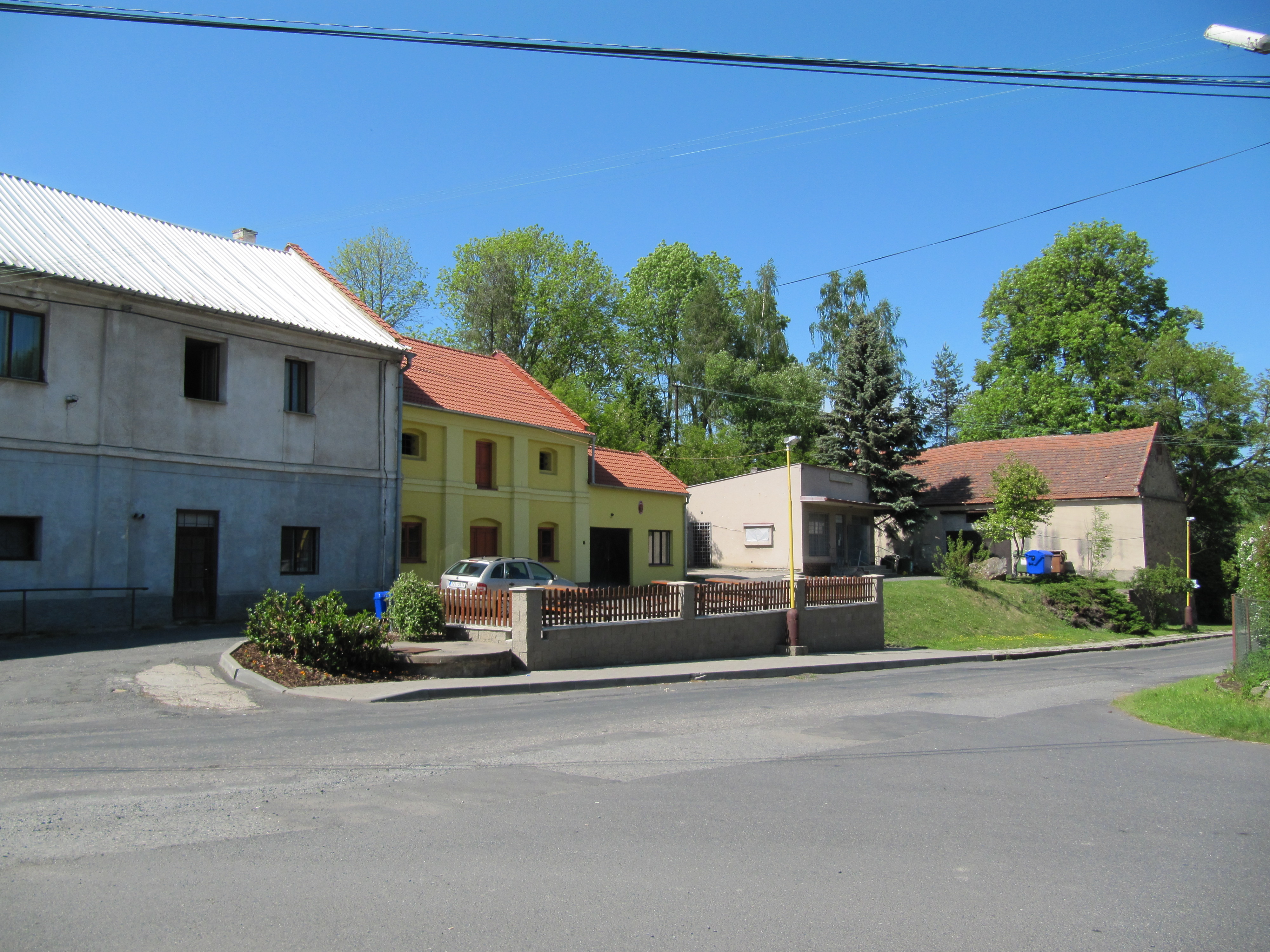 Církvice in Kolín District, Czech Republic. Fire station.